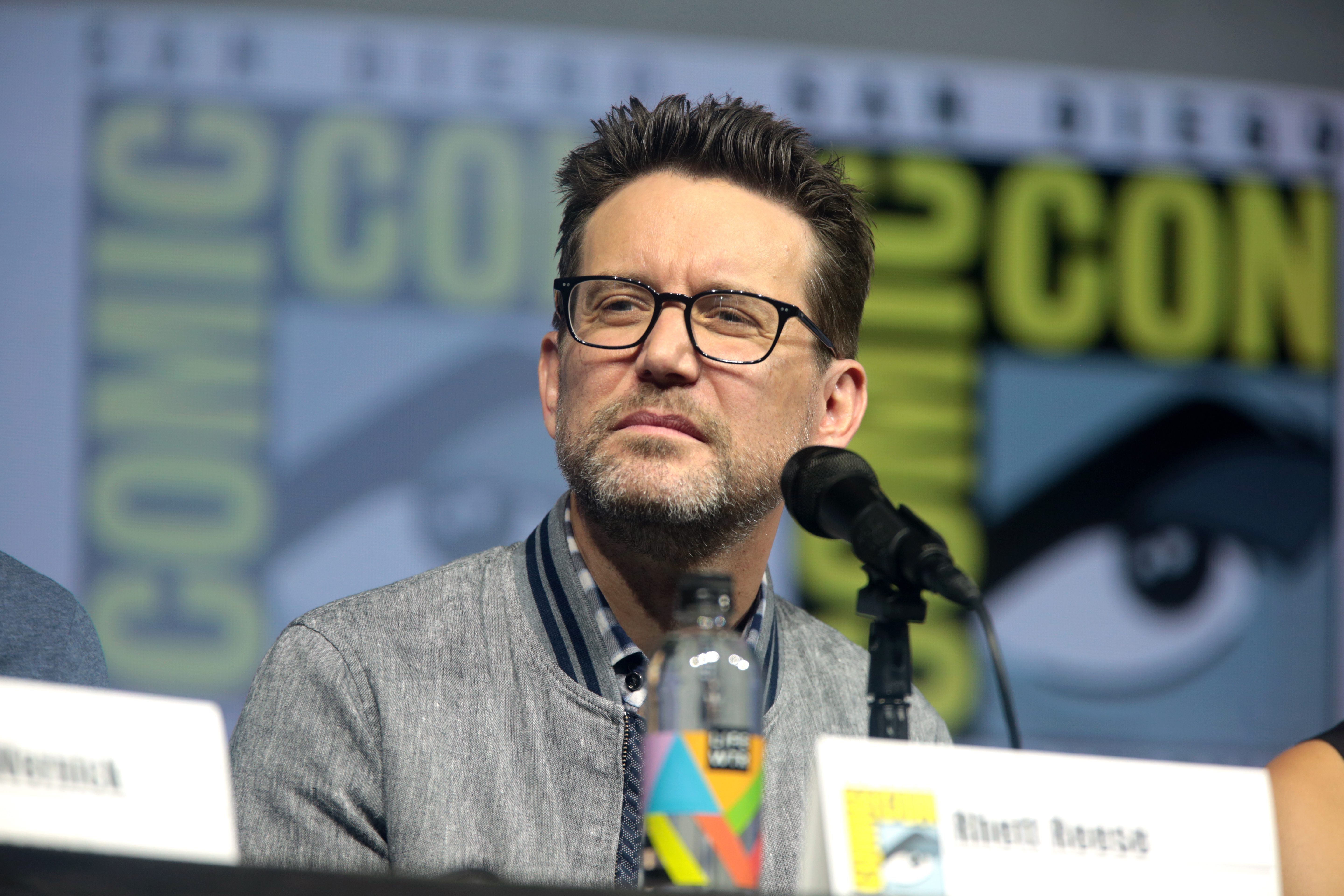 Rhett Reese speaking at the 2018 San Diego Comic Con International, for "Deadpool 2", at the San Diego Convention Center in San Diego, California.